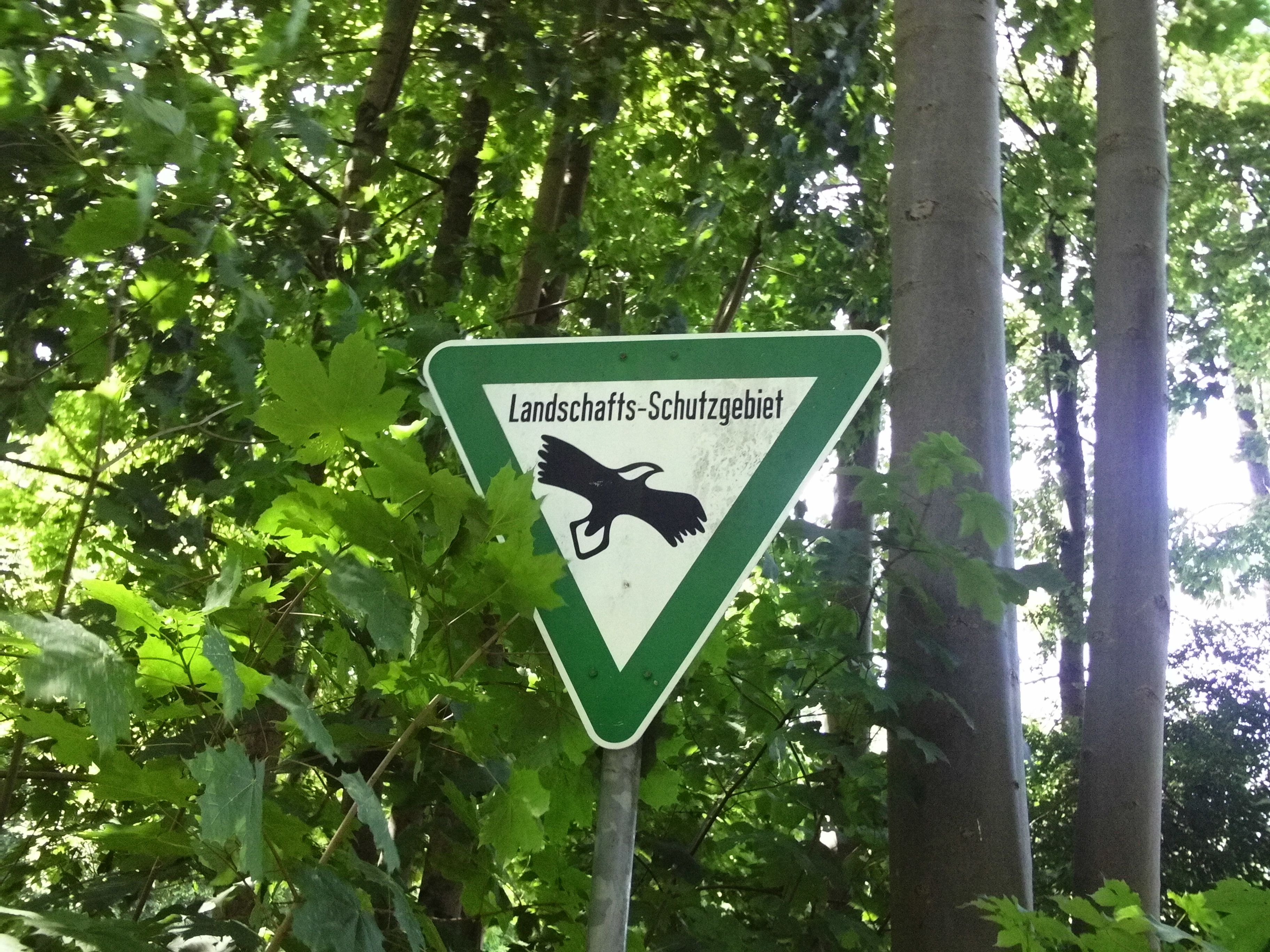 sign of protected landscape of the riverside of river Isar at Oberfoehring